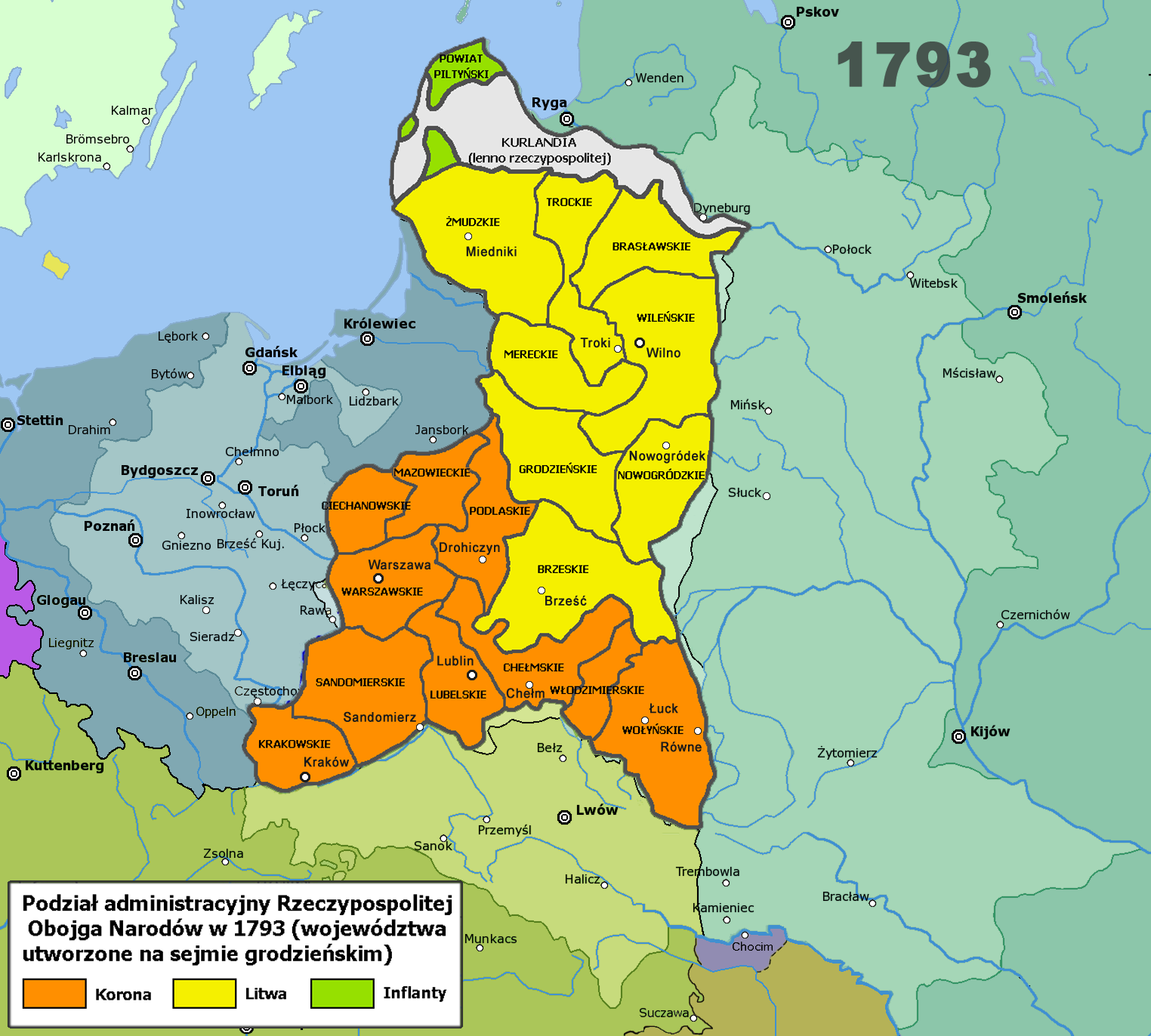 Map of Commonwealth of Both Nations with voivodships created in 23 november 1793.